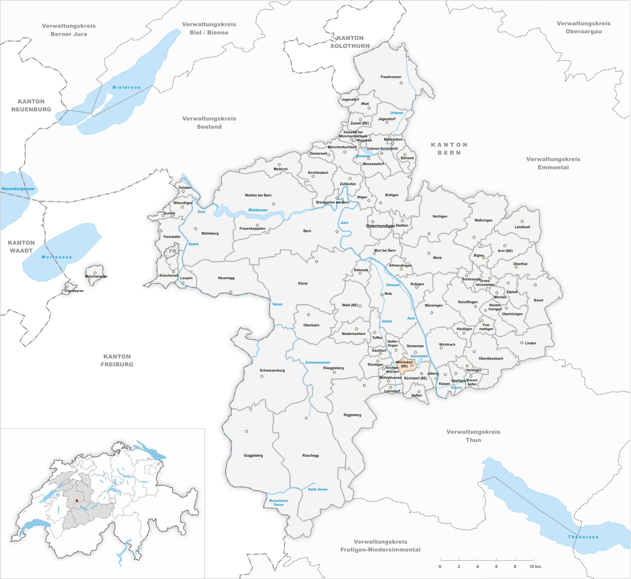 Municipality Mühledorf